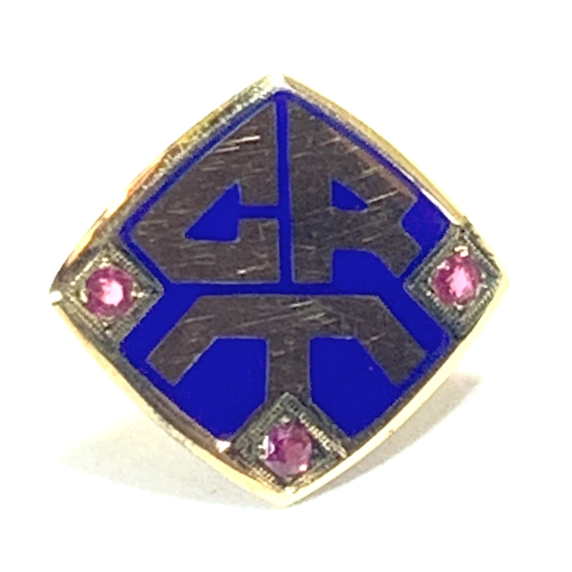 Chicago Rapid Transit (CRT) pin for employees. This pin is engraved with the employees’s name. pin has three pink faceted stones on gold with blue field and the letters C R T